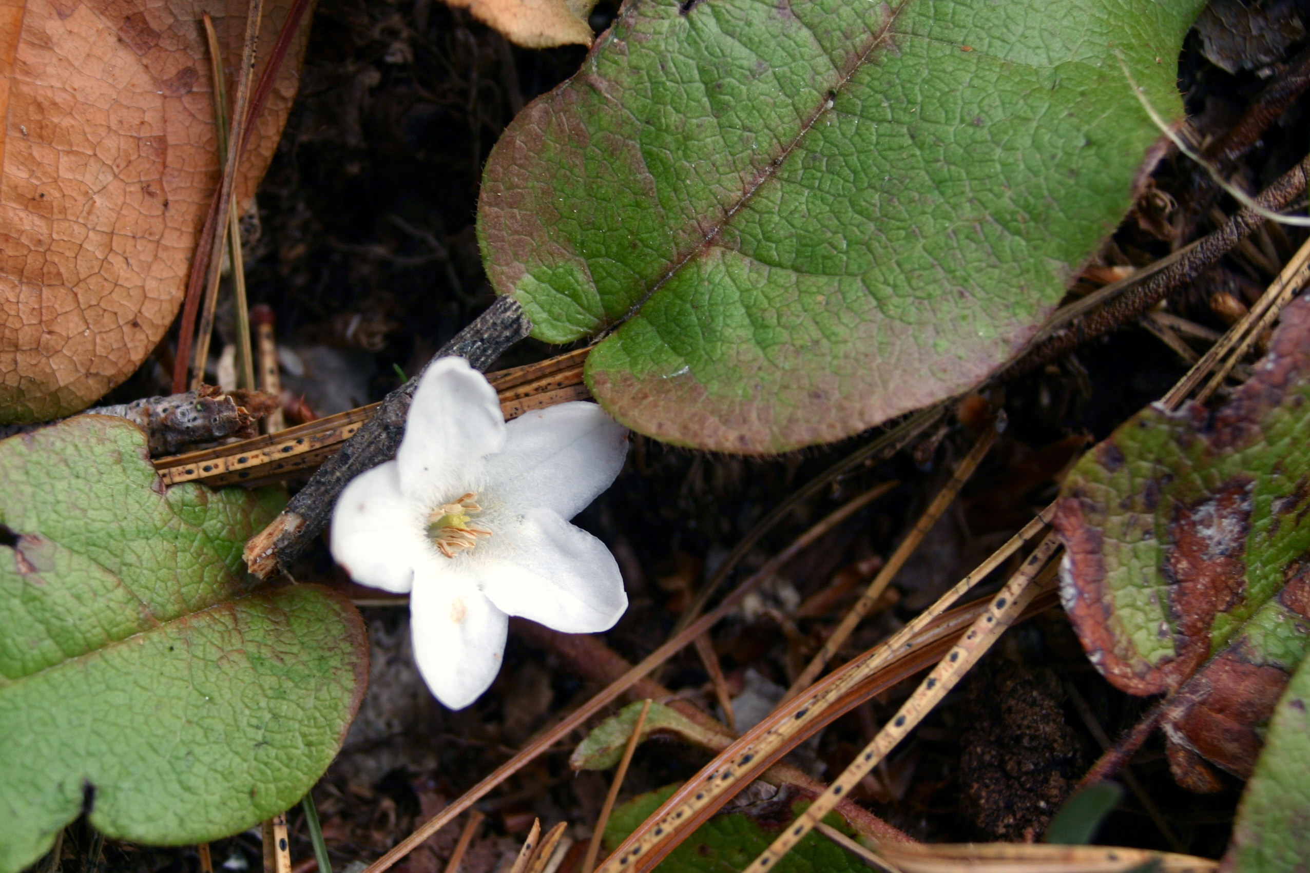 A trailing arbutus or mayflower (Epigaea repens) grows on a mountainside in Maine, United States.